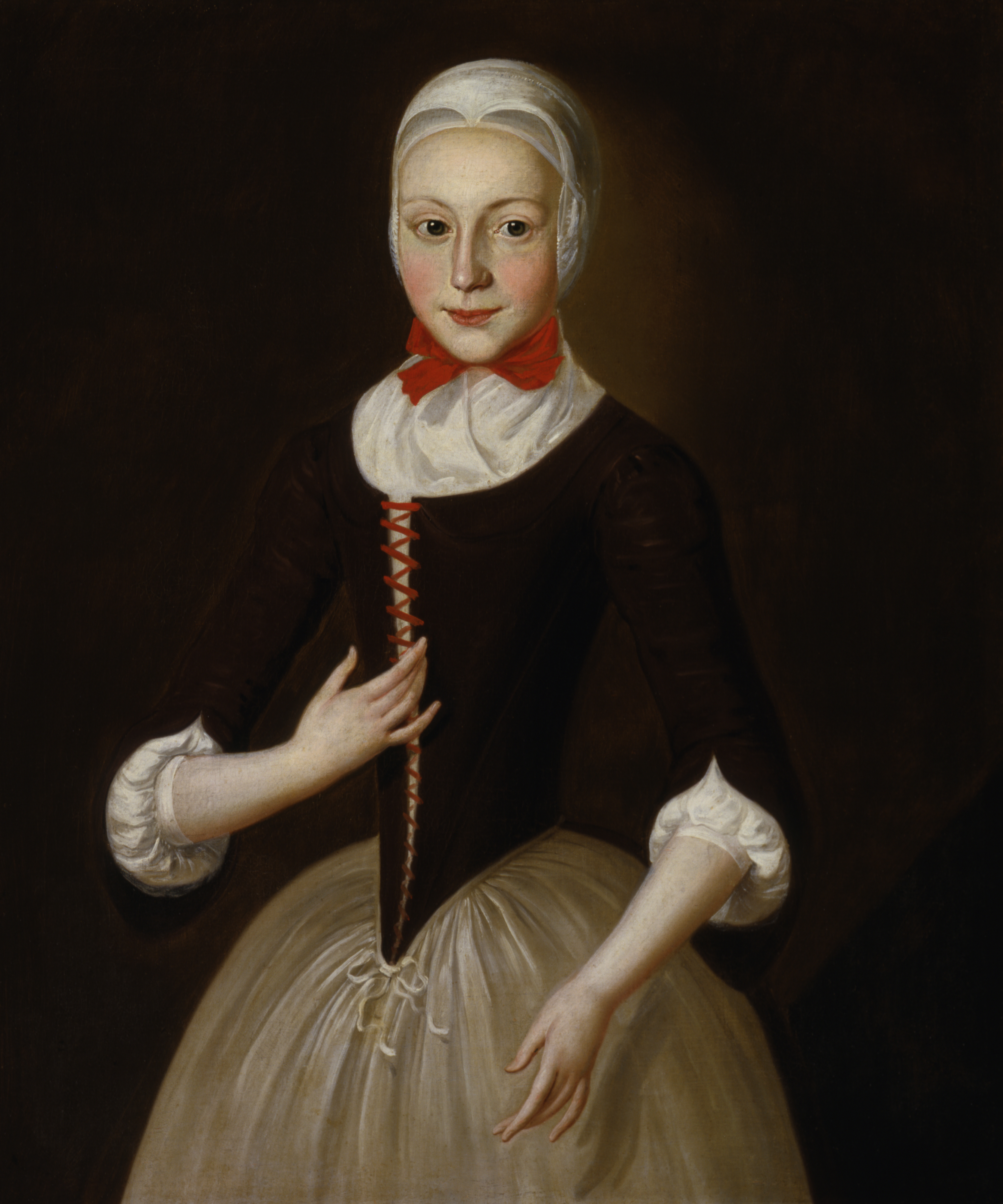 The girl and artist (who was also a lay preacher) were Moravians, a communal society, with many private settlements in Bethlehem Pennsylvania, Georgia, Carolinas. The girl is eligible because the ribbon on her corset is red.